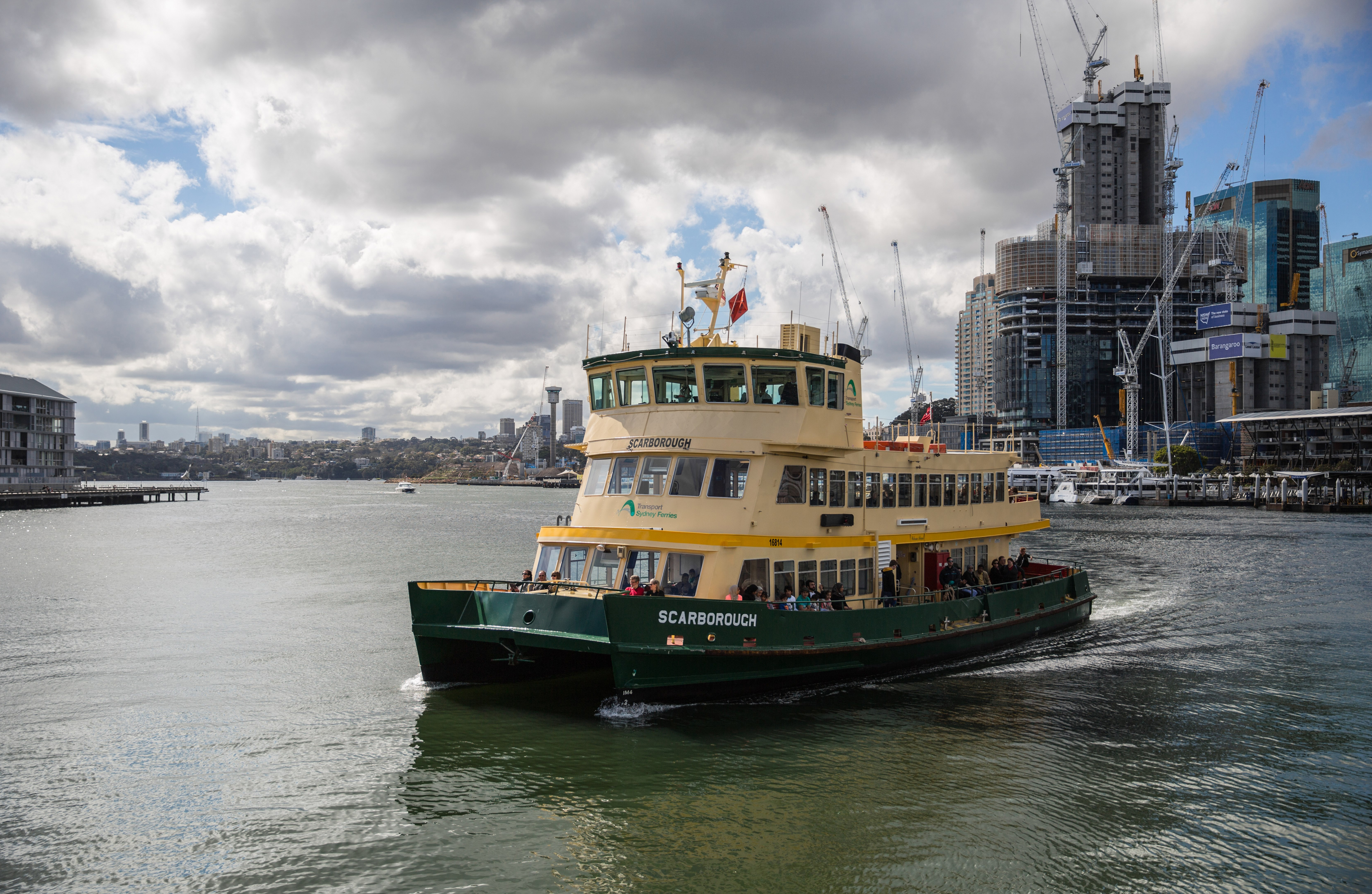 The Sydney ferry Scarborough.